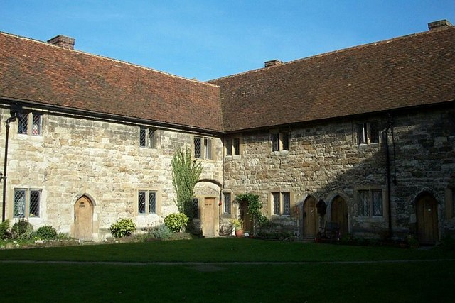 Cobham Almshouses based on medieval chantry built 1362 and partly rebuilt in 1598. Originally endowed by Sir John de Cobham and descendants.